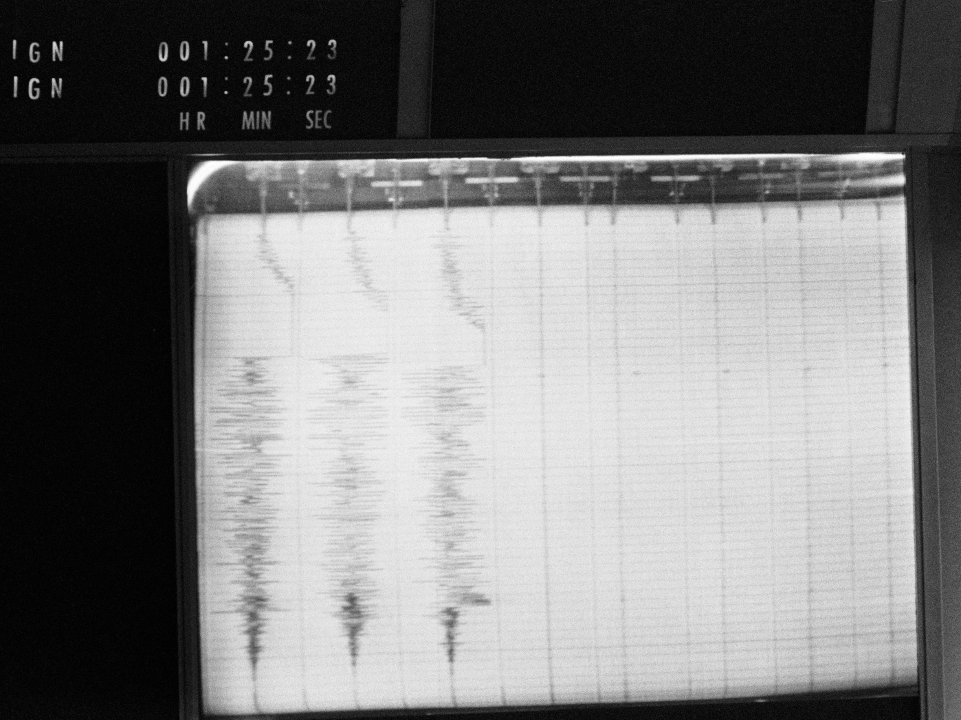 A seismic reading taken from instruments at the Manned Spacecraft Center (MSC) recording impact of the Apollo 13 S-IVB/Instrument Unit with lunar surface. The expended Saturn third stage and instrument unit impacted the lunar surface at 7:09 p.m., April 14, 1970. The location of the impact was 2.4 degrees south latitude and 27.9 degrees west longitude, about 76 nautical miles west-northwest of the Apollo 12 Lunar Surface Experiment package deployment site. The S-IVB/IU impact was picked up by the Passive Seismic Experiment, a component of the package and transmitted to instruments at the Mission Control Center.